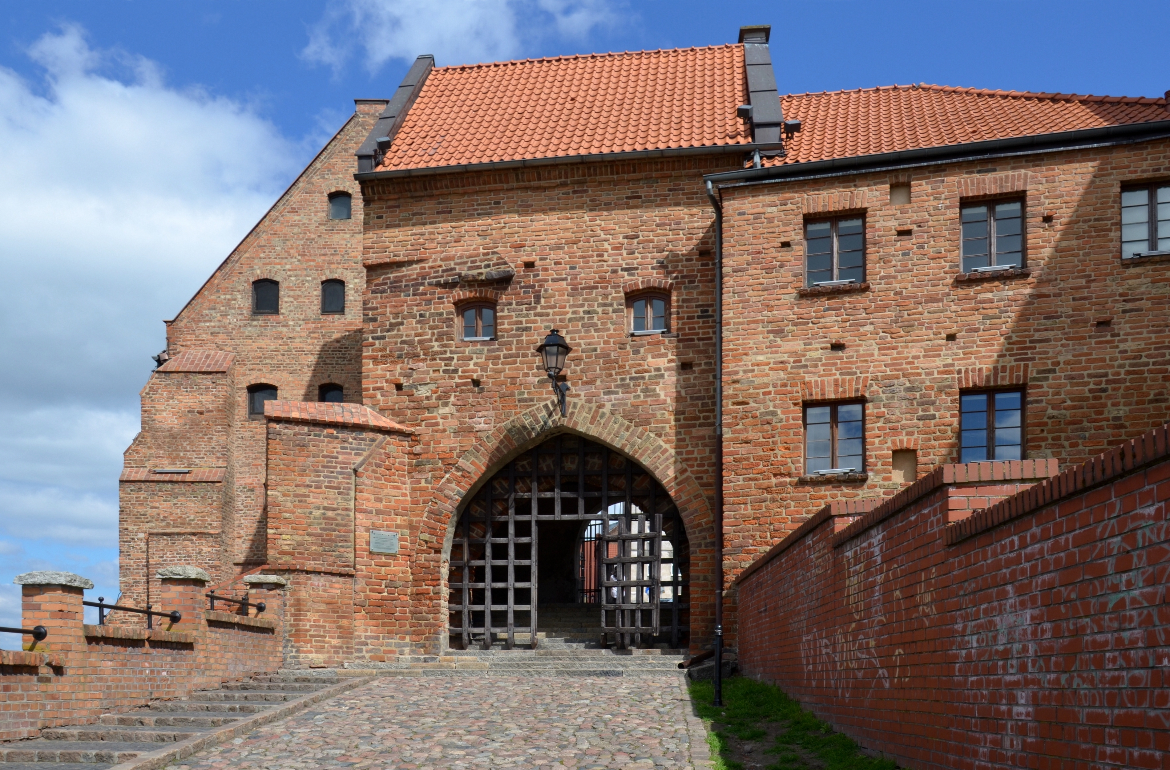 Grudziądz, Spichrzowa Street, Water Gate